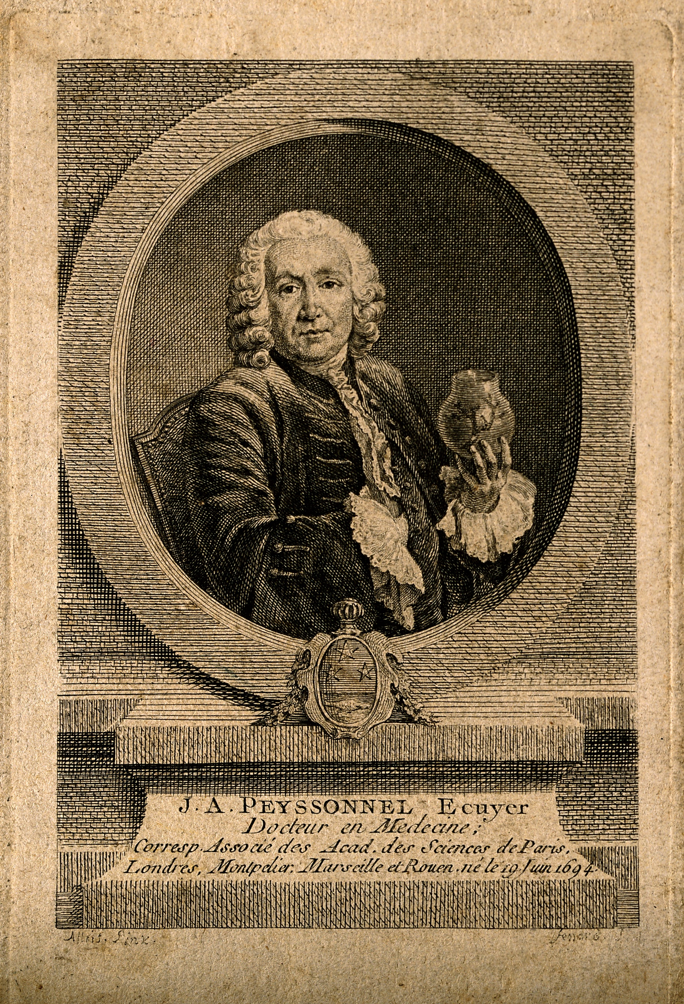 Jean Antoine Peyssonnel [sic]. Line engraving by Étienne Fessard after Allais. Iconographic Collections Keywords: portrait prints; engravings; Jean-Antoine Peyssonnel